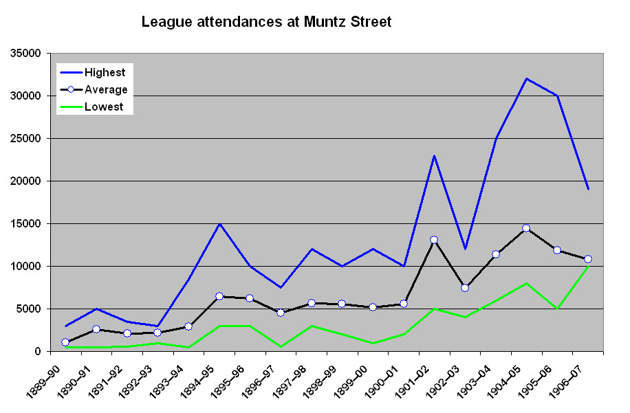 Self-made graph of attendances for Small Heath F.C. and Birmingham F.C. (later renamed Birmingham City F.C.) in the Football Alliance and Football League at the Muntz Street ground.